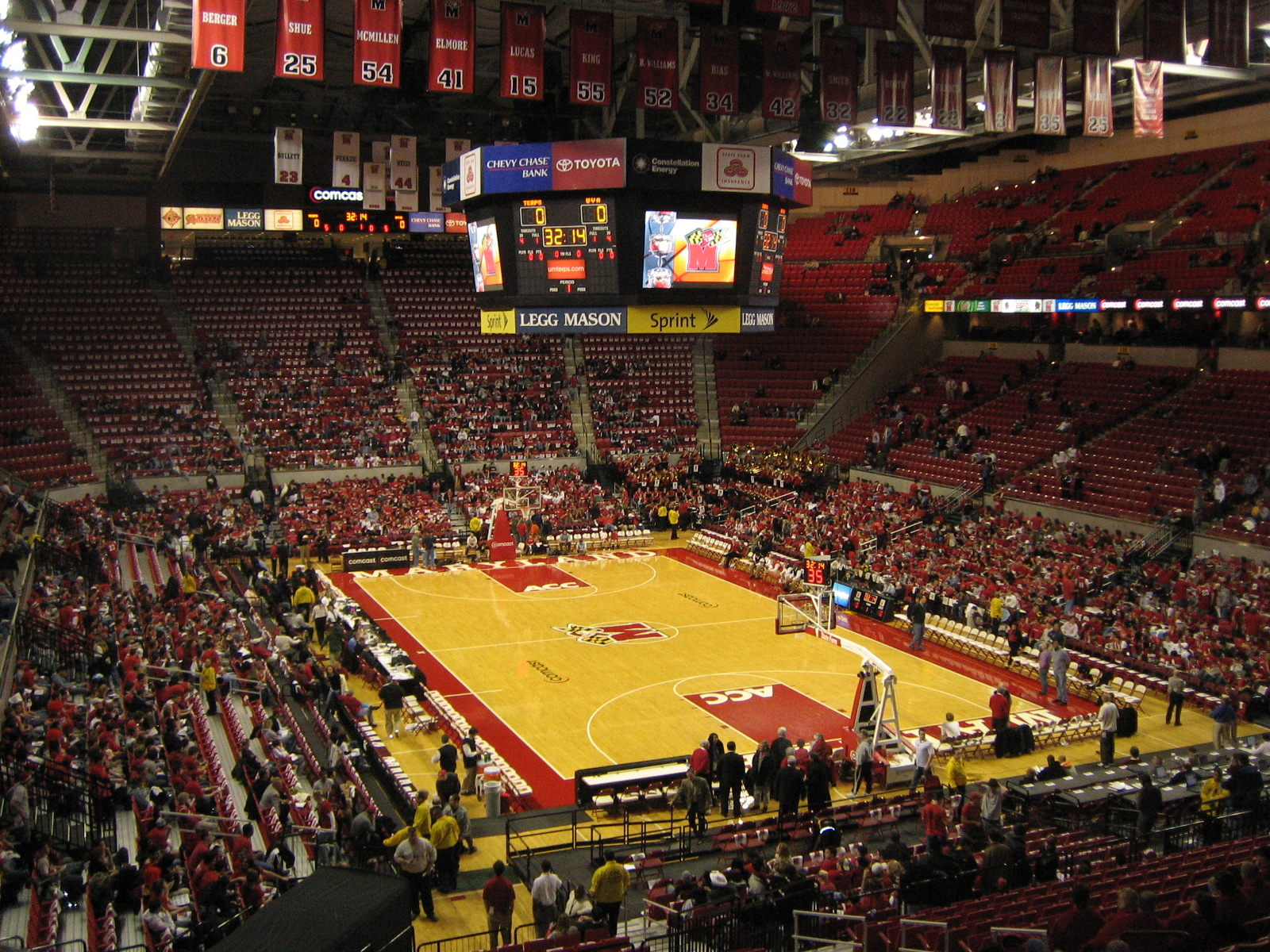 Comcast Center (arena) before the UVA game on February 6, 2007.